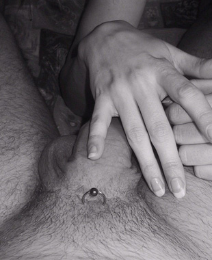 I, the author and subject of this image release it into public domain. This applies worldwide.